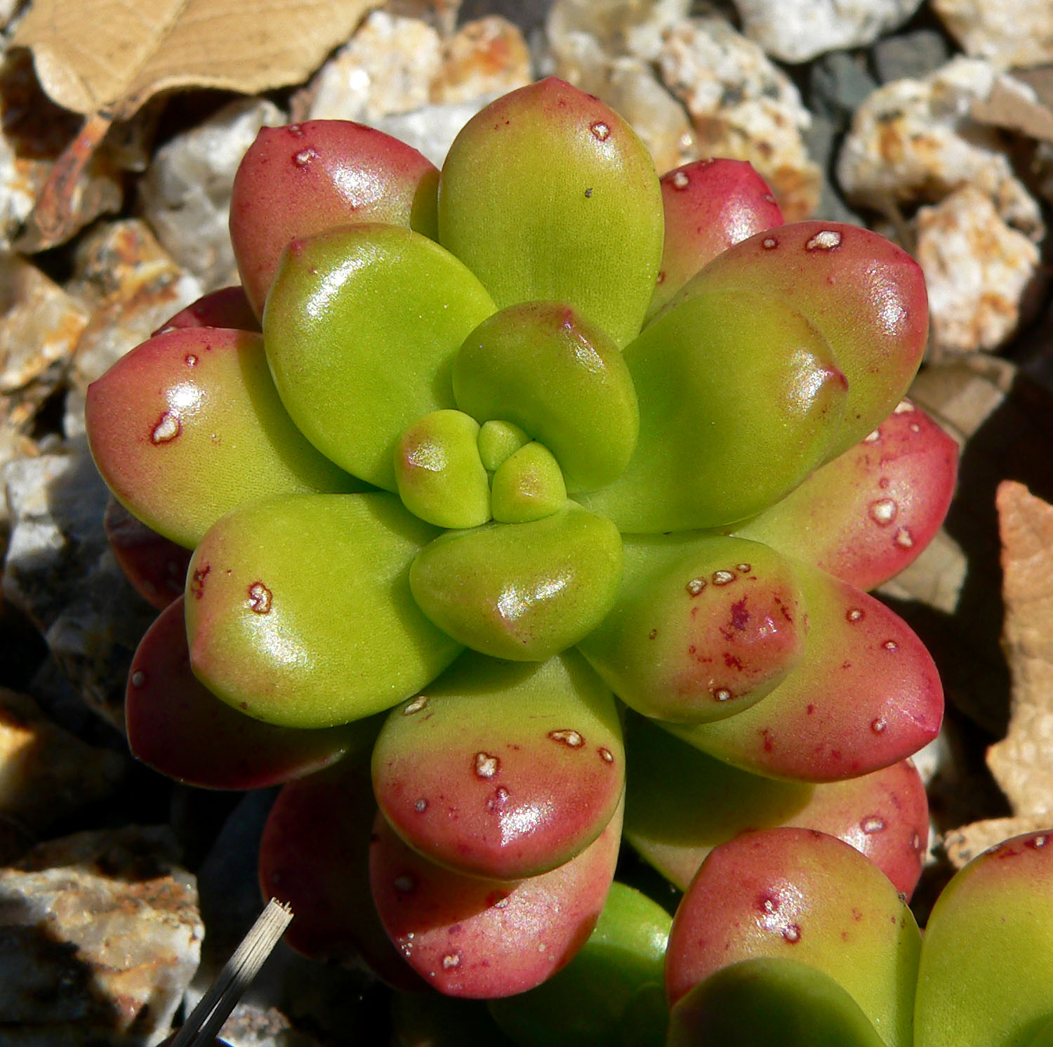 Sedum lucidum at the University of California Botanical Garden, Berkeley, California